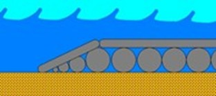 Sketch of Boscombe Surf reef construction